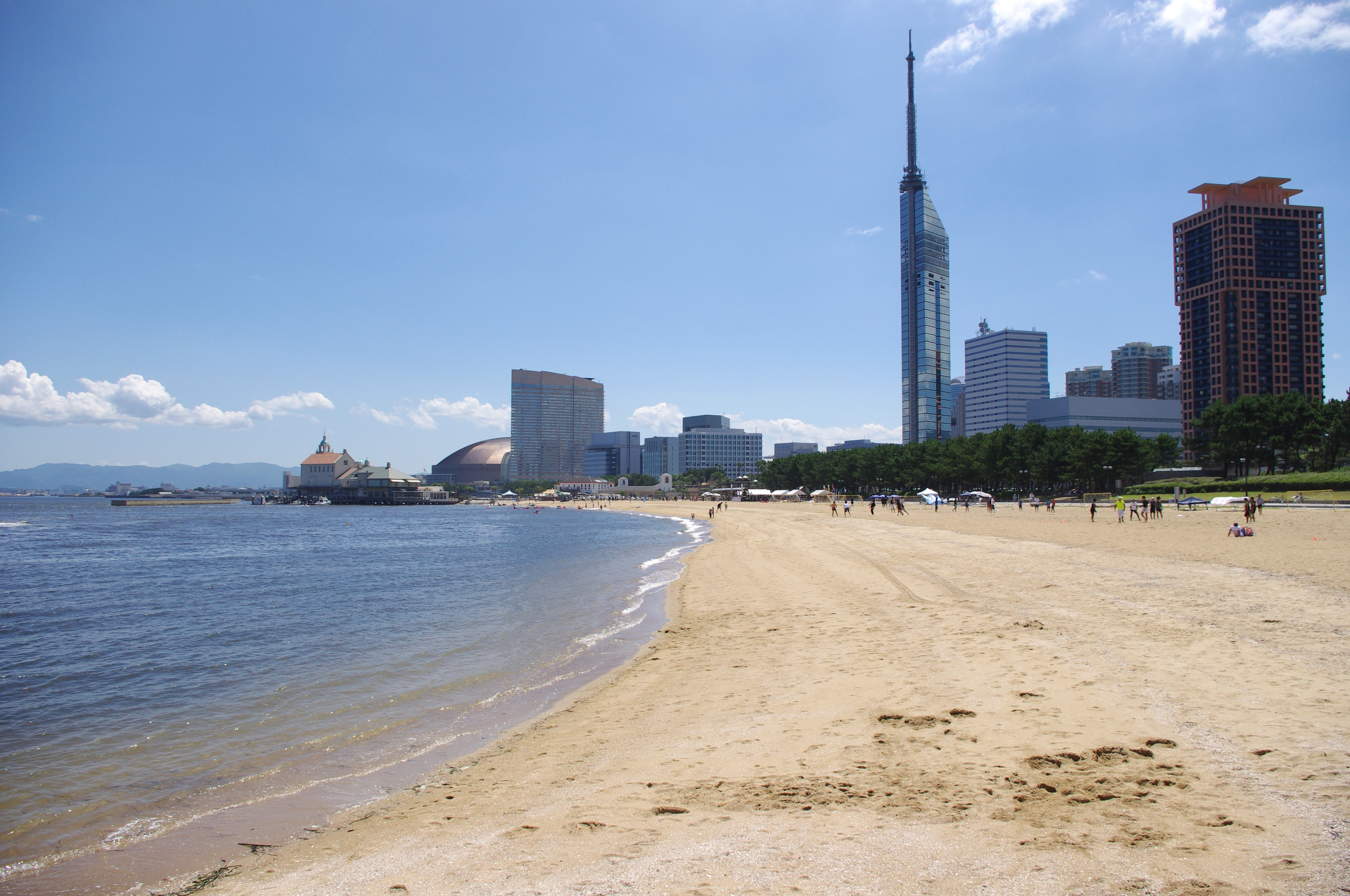 The beach in Fukuoka, near Fukuoka Tower